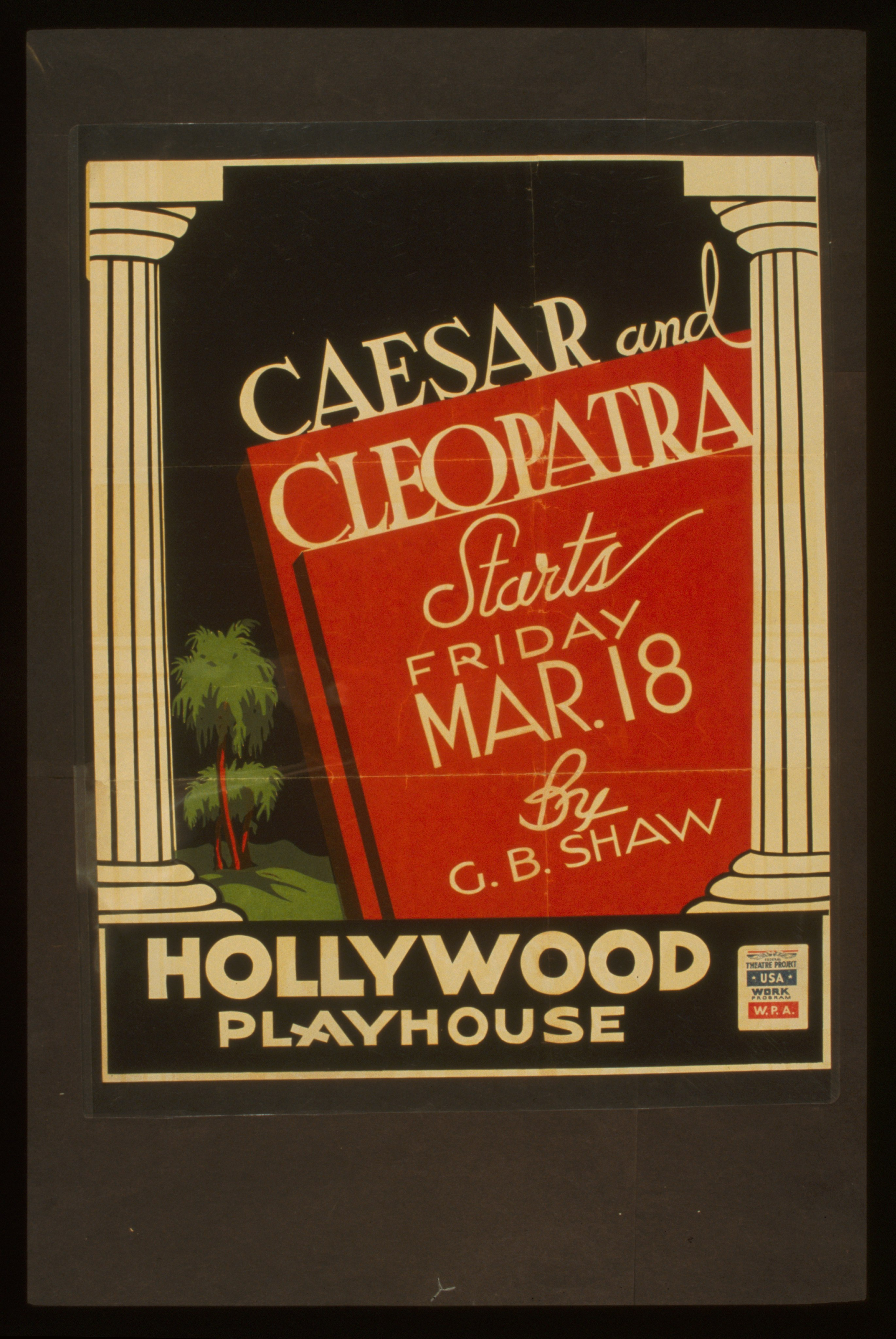 Title: Caesar and Cleopatra, by G.B. Shaw ... Hollywood Playhouse Abstract: Poster for Federal Theatre Project presentation of "Caesar and Cleopatra" at the Hollywood Playhouse, showing columns and trees. Physical description: 1 print (poster) : silkscreen, color. Notes: Work Projects Administration Poster Collection (Library of Congress).